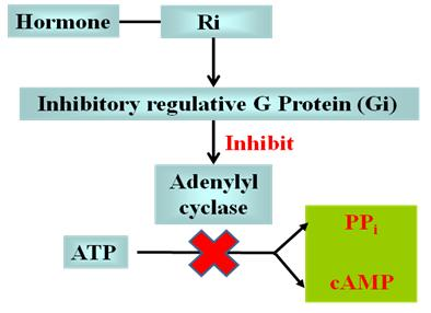 A sketch to describe the effect of Ri and Gi in cAMP signal pathway